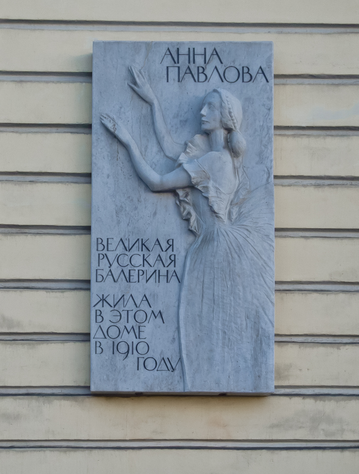 Anna Pavlova Memorial board. 5, Italianskaya Street in Saint Petersburg.